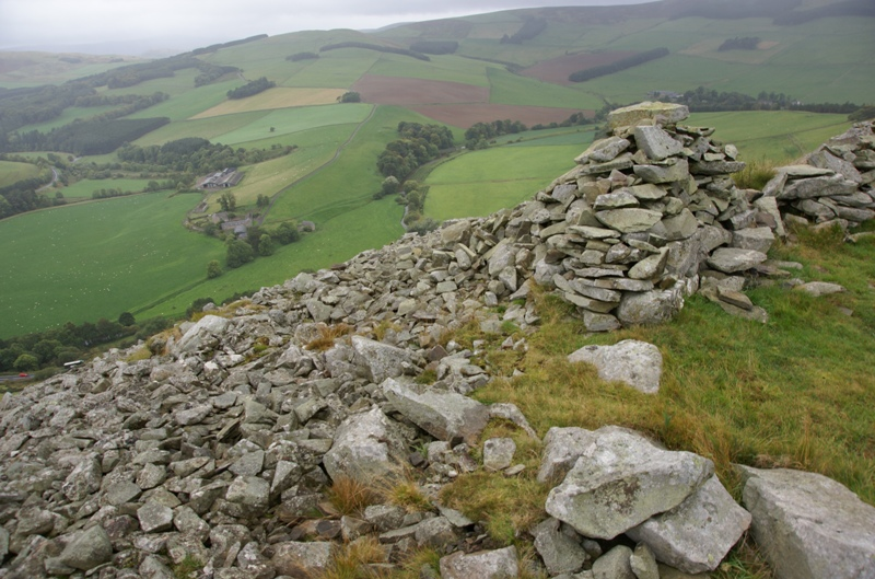 Bow Broch, Stow, Scottish Borders, Scotland. Southern hill.